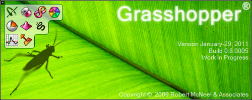 Grasshopper application banner image